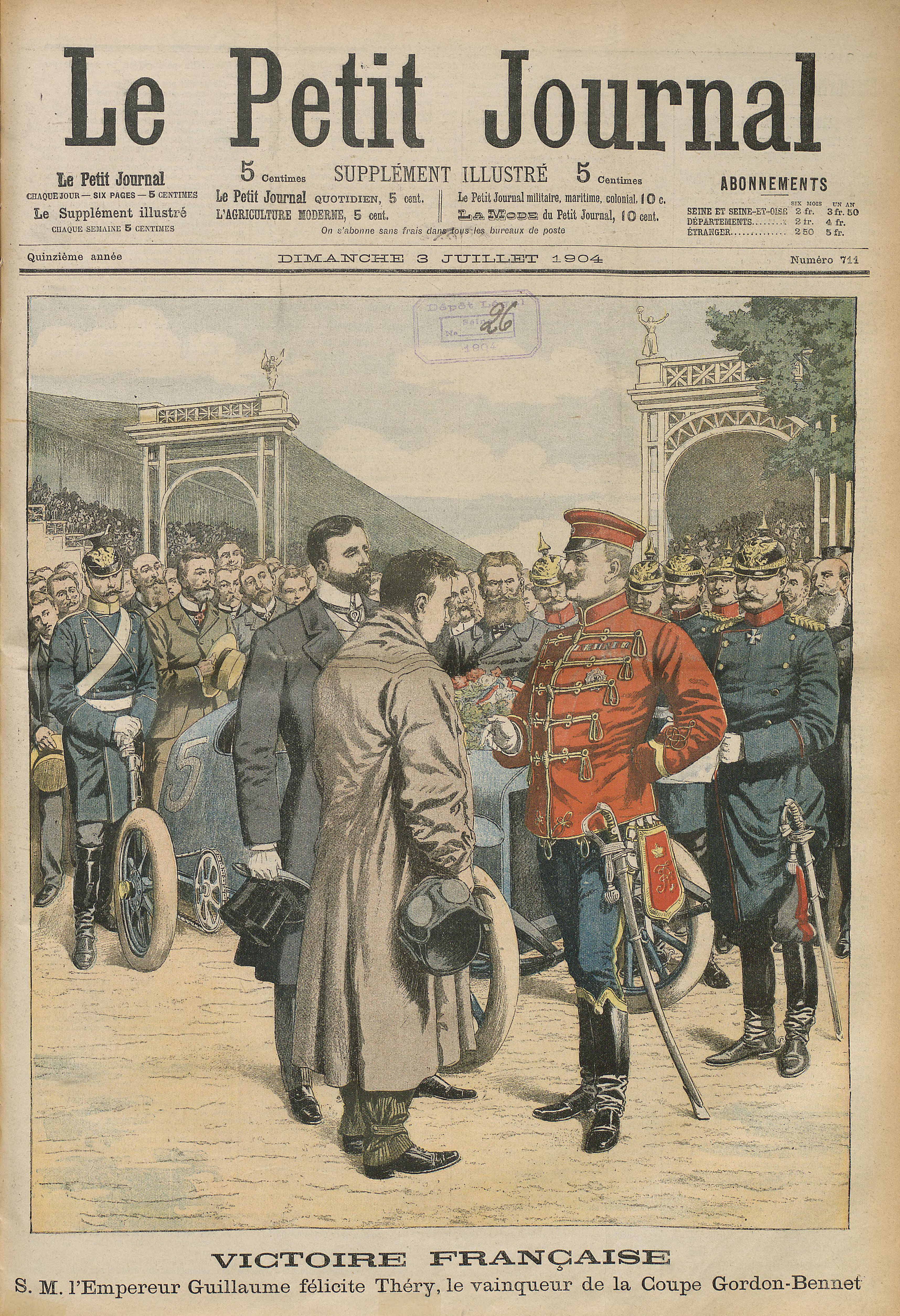 Front Cover of Le Petit Journal, 3rd July 1904. Victoire Francaise. S.M. l'Empereur Guillaume felicite Théry, le vainqueur de la Coupe Gordon-Bennett. (French Victory, Emperor Wilhelm II congratulates the winner of the Gordon-Bennett Cup) Frenchman Léon Théry, winner of the Gordon Bennett Cup in auto racing, 1904. The Gordon Bennett Cup was first held in 1900. The 1904 race was run in the Taunus mountains in Germany and was won by Théry in a Richard-Brasier car. An illustration from "Le Petit Journal", 3rd July 1904.